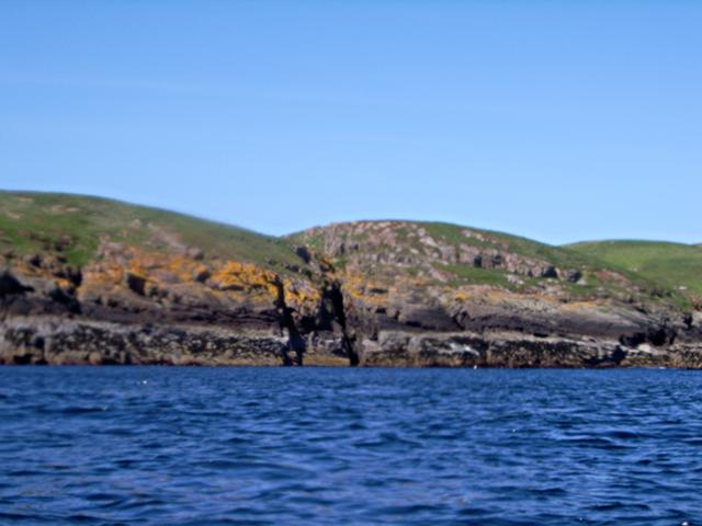 Glas-leac Beag, near to Glas-Leac Beag [other Features], Highland, Great Britain. The island's name is "small grey rock" in English, but it does appear to be quite green, with plenty of turf on top. Unfortunately, there's no good landing place to explore close up.